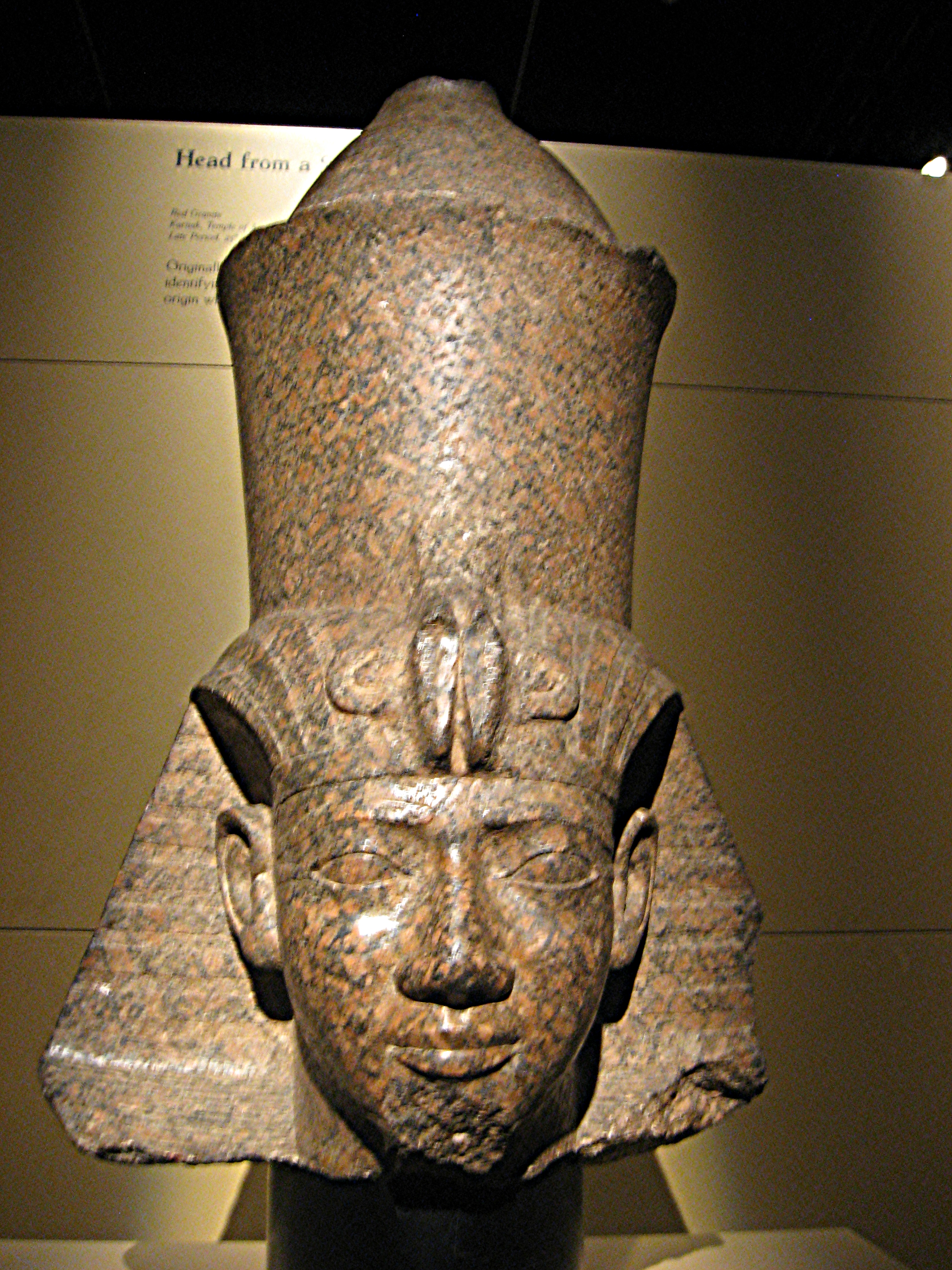 Shabaqa Sphinx Head. King of Kush. 25th dynasty of Egypt